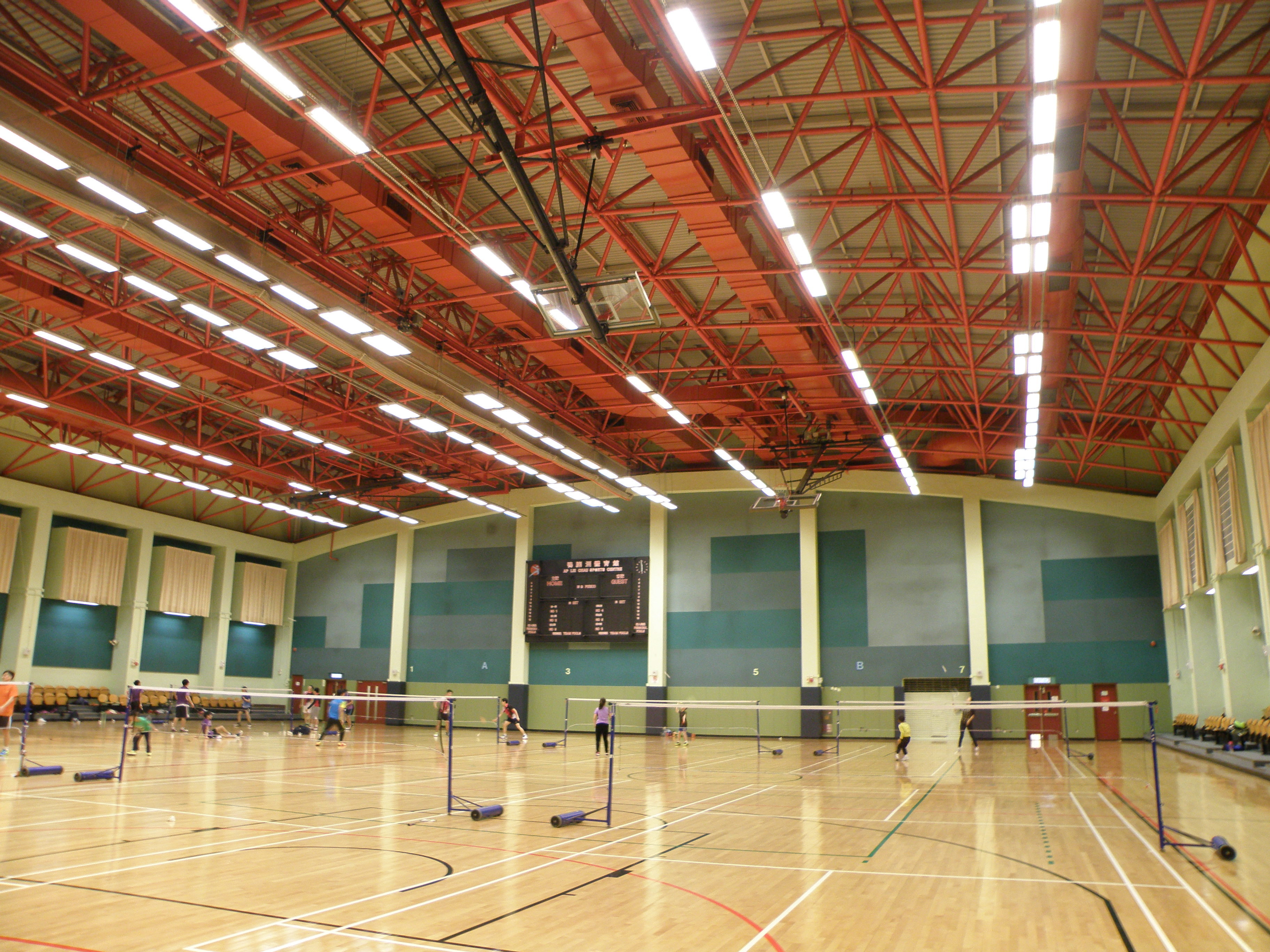 Ap Lei Chau Sports Centre in Ap Lei Chau, Hong Kong.